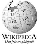 The Wikipedia logo by Nohat with Norwegian translation.